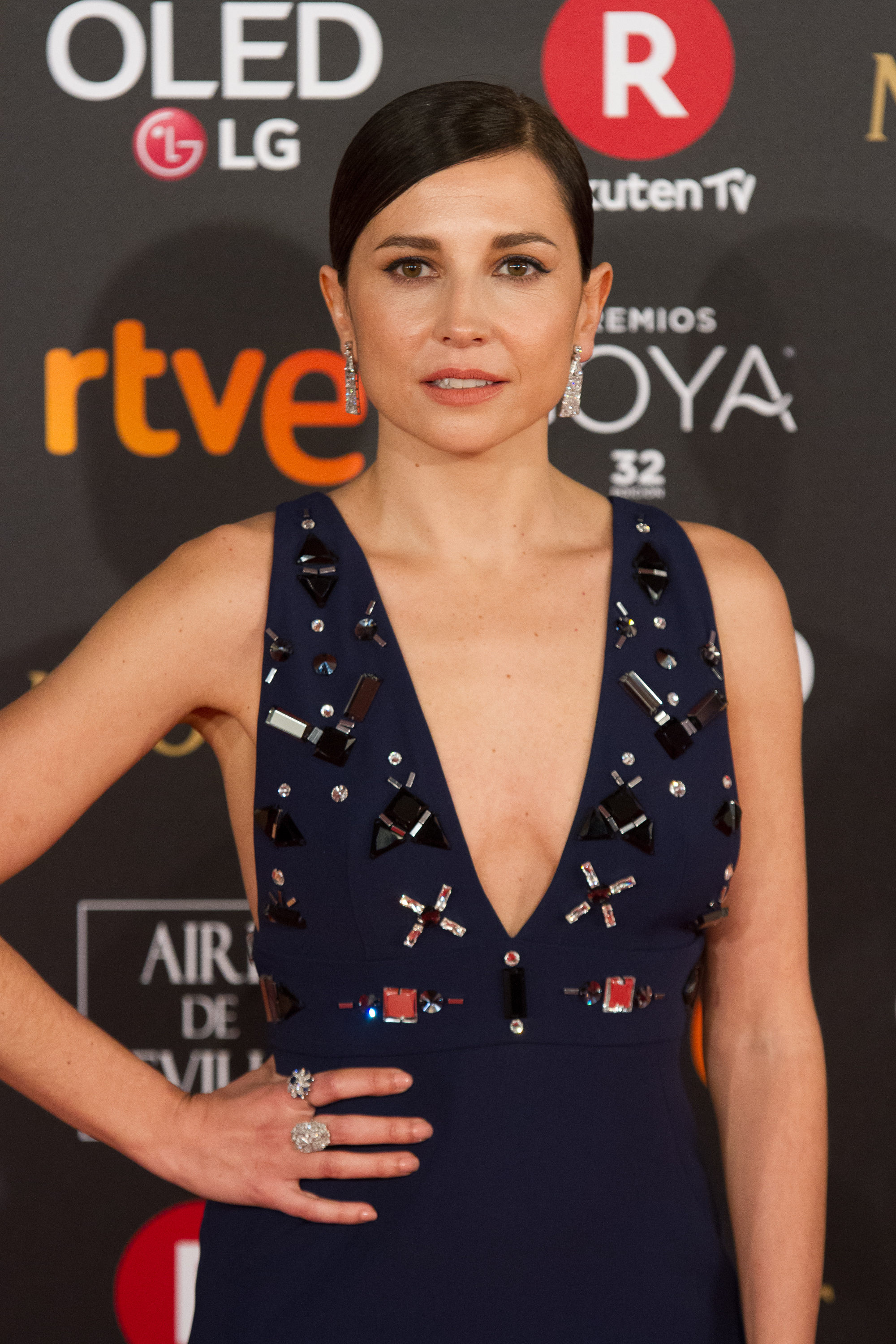 32nd Goya Awards, 2018.